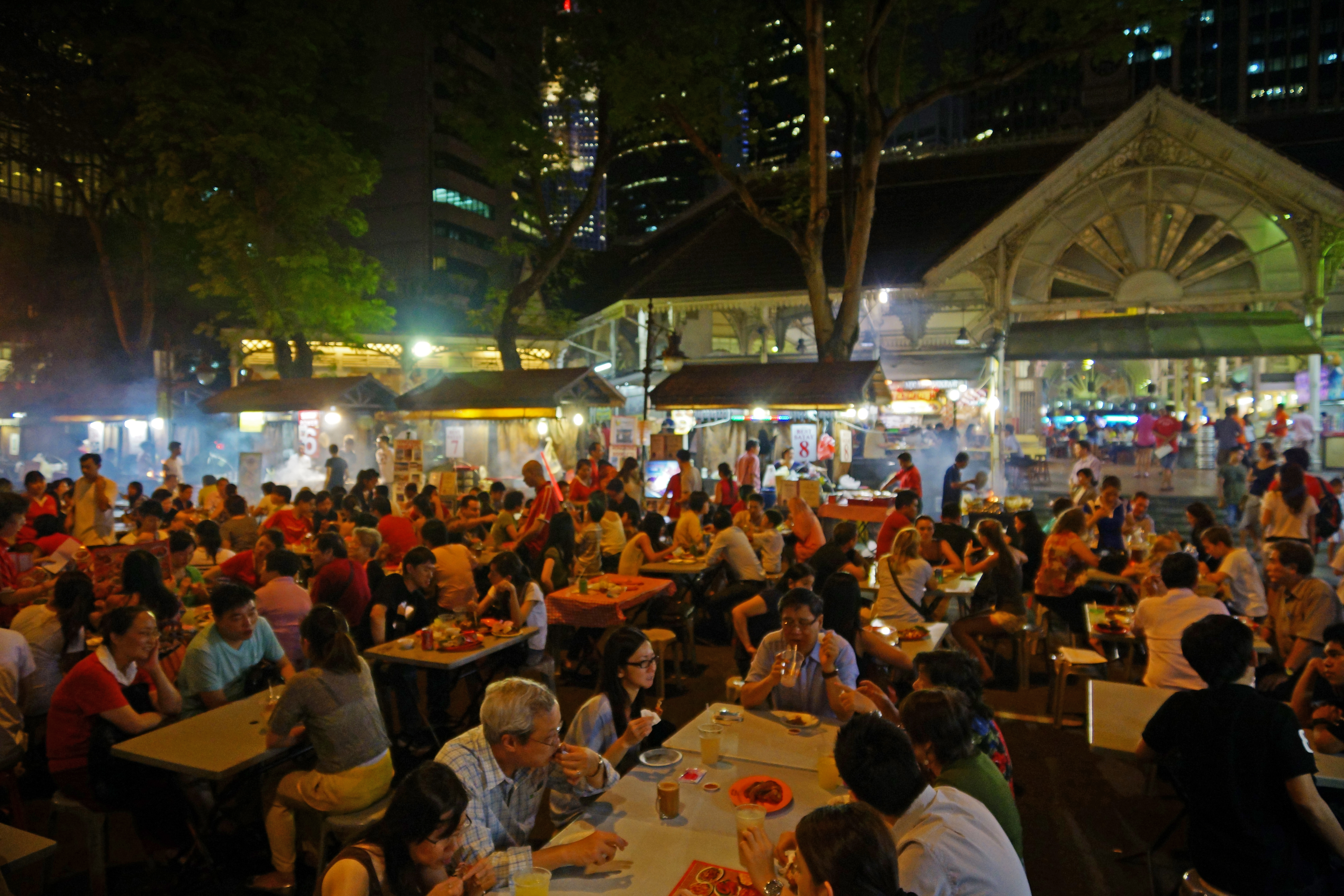 Satay stalls along Boon Tat Street next to Telok Ayer Market (commonly known as Lau Pa Sat), Singapore.